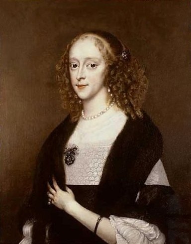 Portrait of Wendela Bicker, wife of Johan de Witt